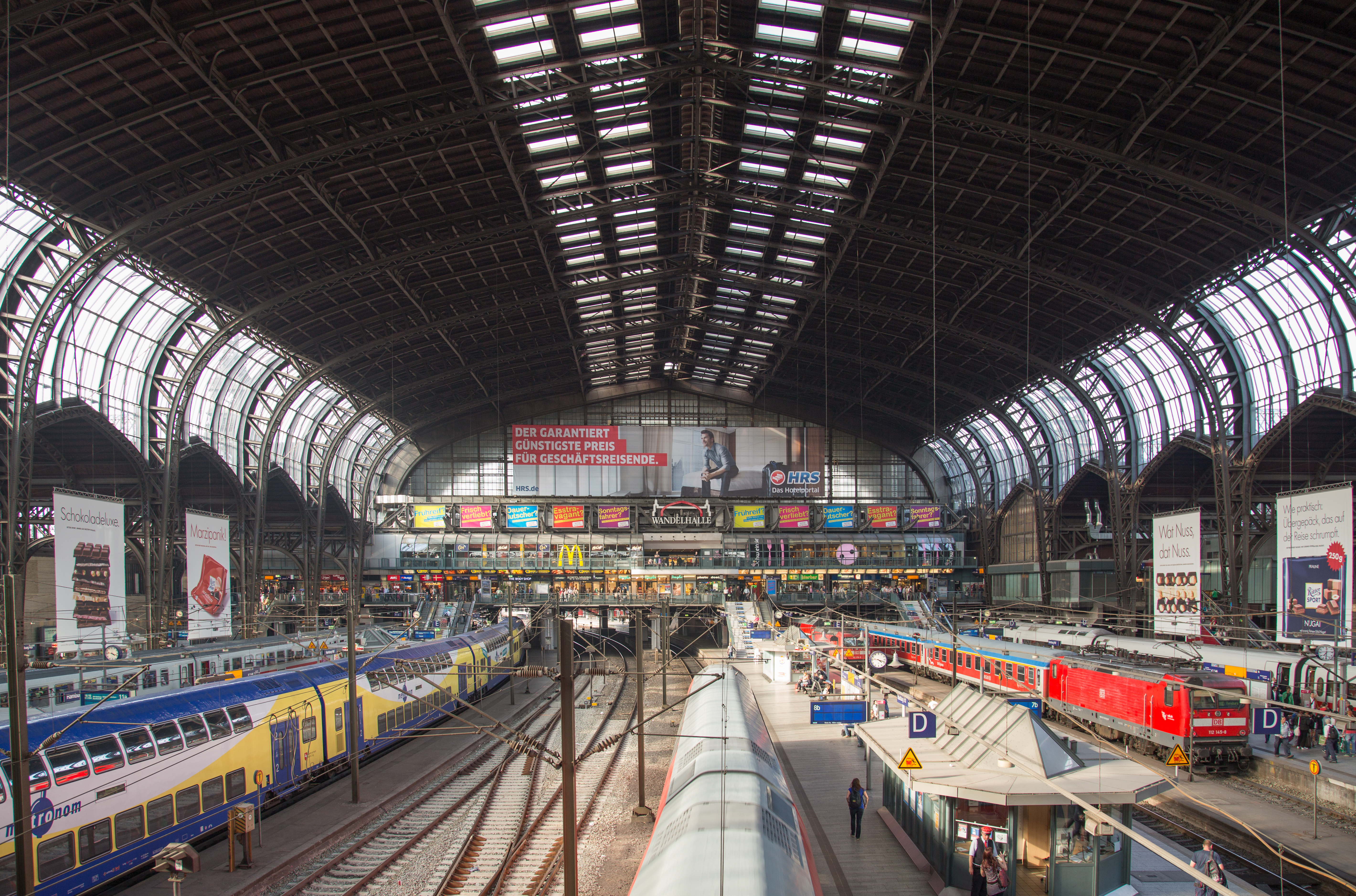 The Hauptbahnhof central train station and platforms in Hamburg, Germany.